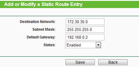 Graphical User Interface (GUI) to configure static routing, tp-link Router, the Admin must provide the destination address, its mask and the router's outgoing interface indirectly by providing the default gateway address.